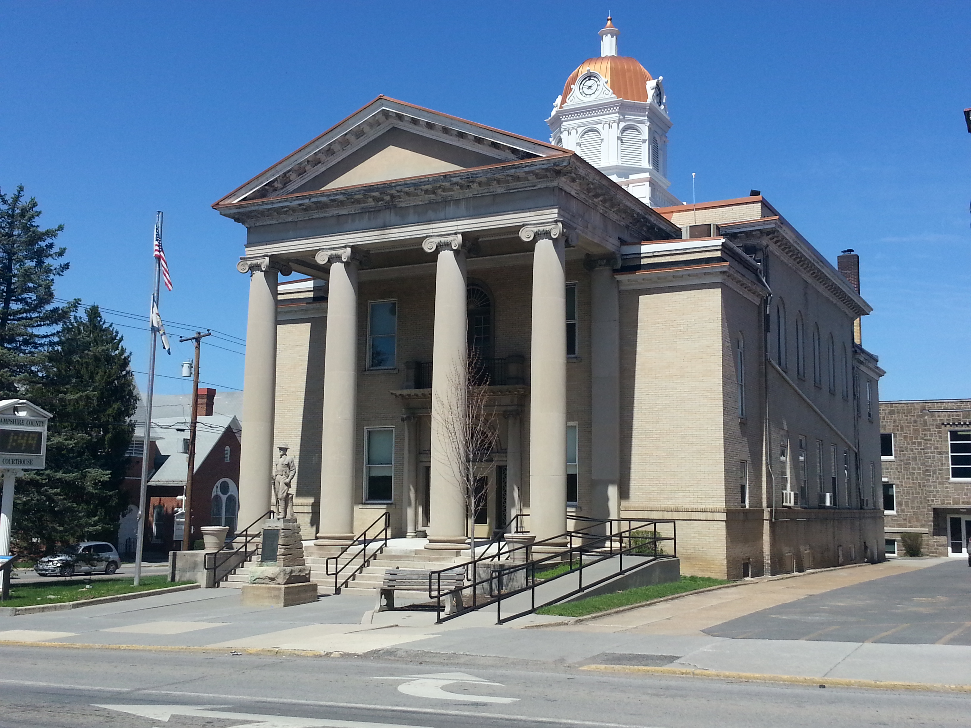 Hampshire County Courthouse, April 2014